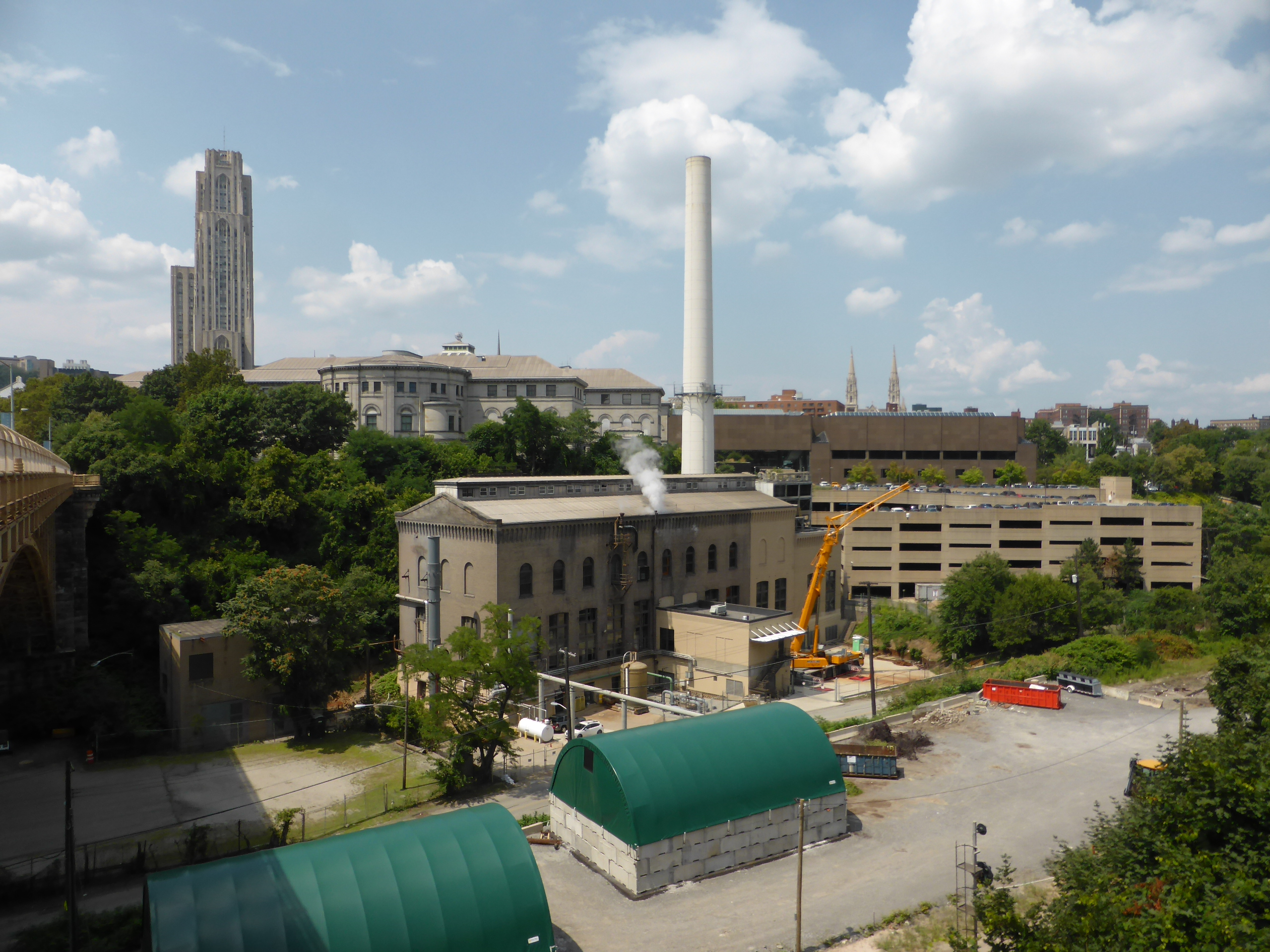 Pittsburgh. In the background is the cathedral of learning.